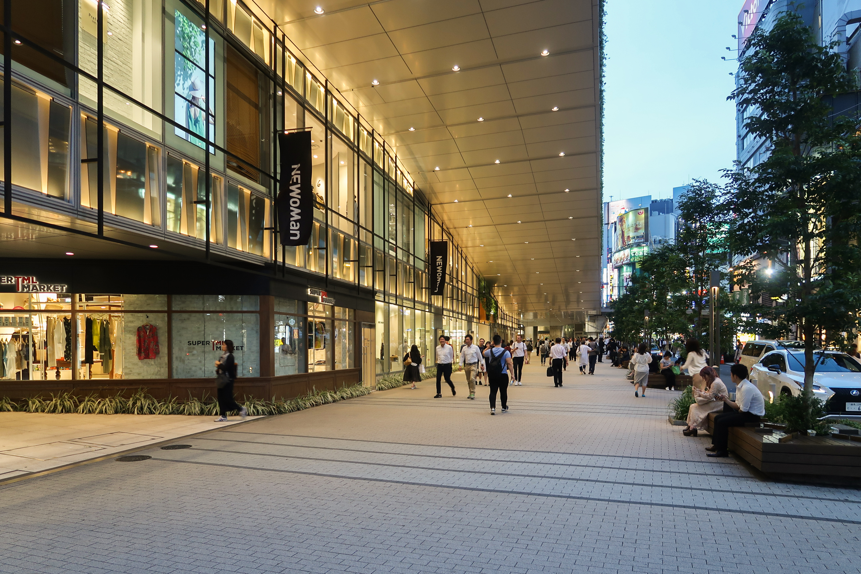 NEWoMan